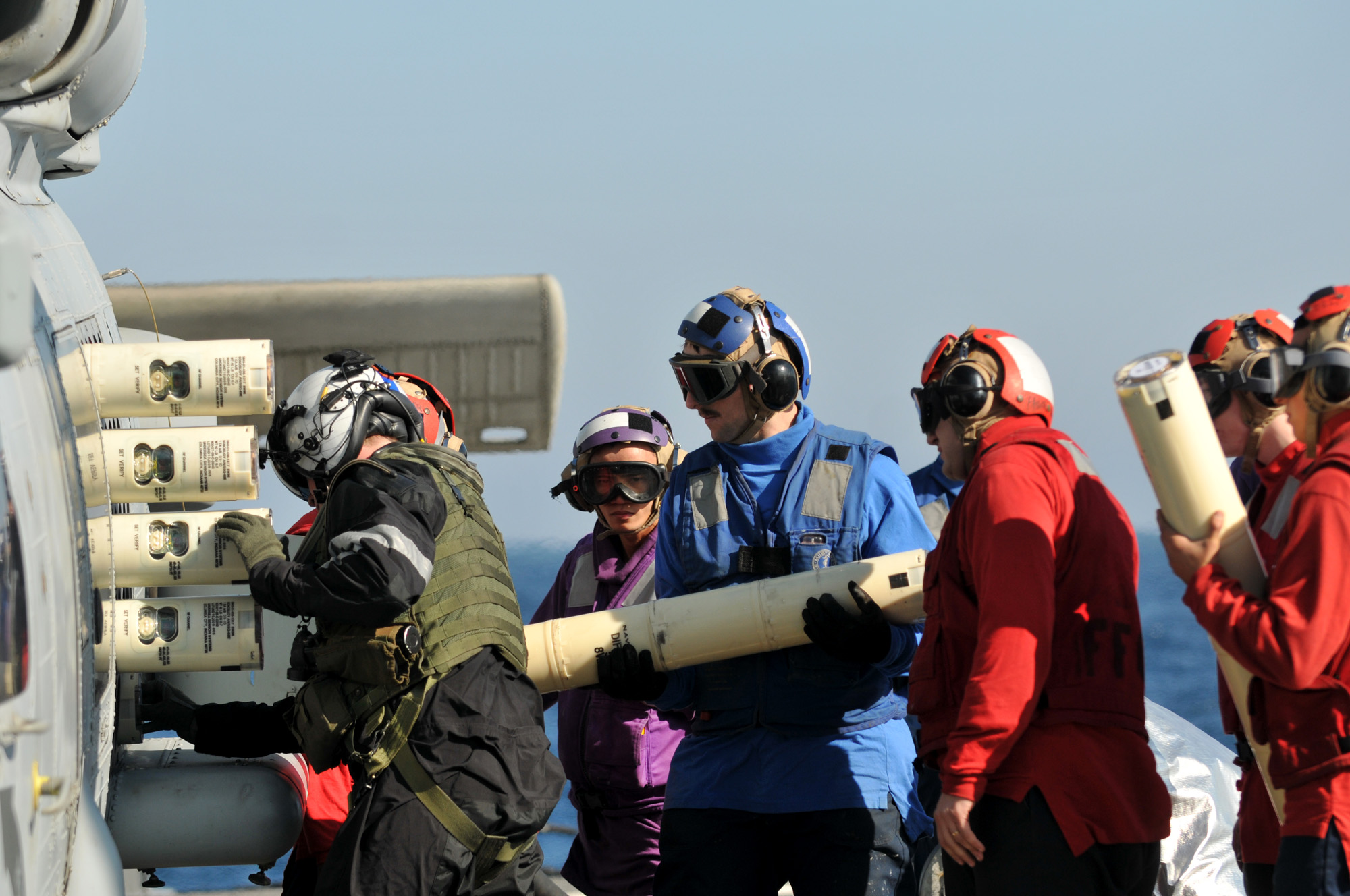 PACIFIC OCEAN (June 22, 2011) Sailors load sonar buoys onto an SH-60B Sea Hawk helicopter assigned to Anti-Submarine Helicopter Squadron Light (HSL) 44 aboard the guided-missile frigate USS Thach (FFG 43). Thach and the guided-missile frigate USS Boone (FFG 28) are participating in a series of anti-submarine warfare exercises with the Chilean navy. Boone and Thach are deployed to South America in support of Southern Seas 2011. (U.S. Navy photo by Mass Communication Specialist 3rd Class Stuart Phillips/Released)